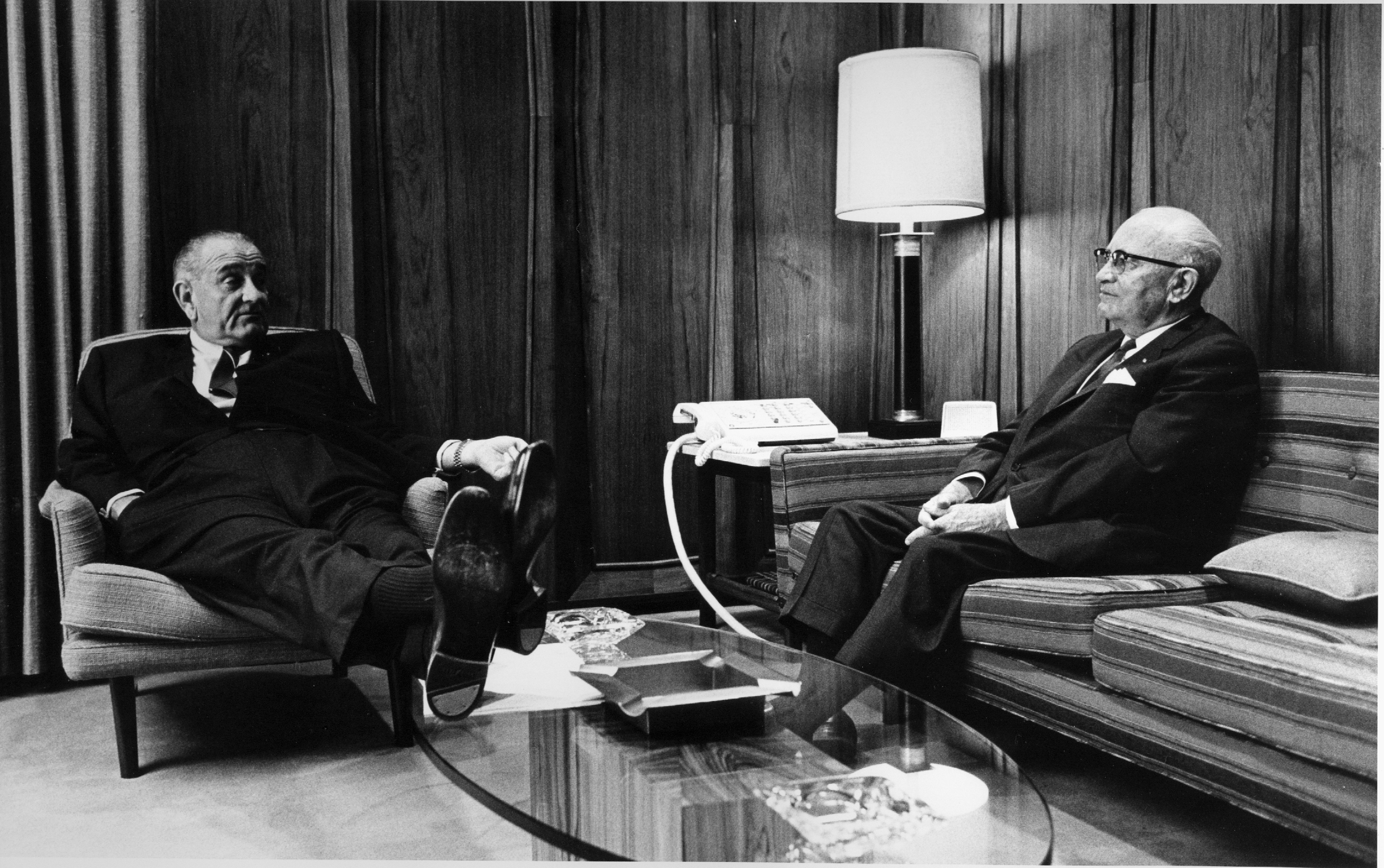 Jim Novy and Lyndon Baines Johnson, circa 1965